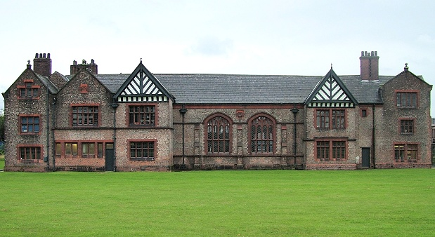 Ordsall Hall is a historic house and a former stately home in Ordsall, Salford. It dates back to at least the Late Middle Ages and was the seat of the Radclyffe family.[24]. Ordsall Hall.